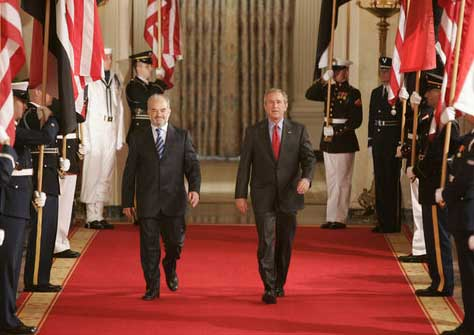 "President Bush walks with Iraqi Prime Minister Ibrahim al-Jaafari toward the East Room to meet the media"